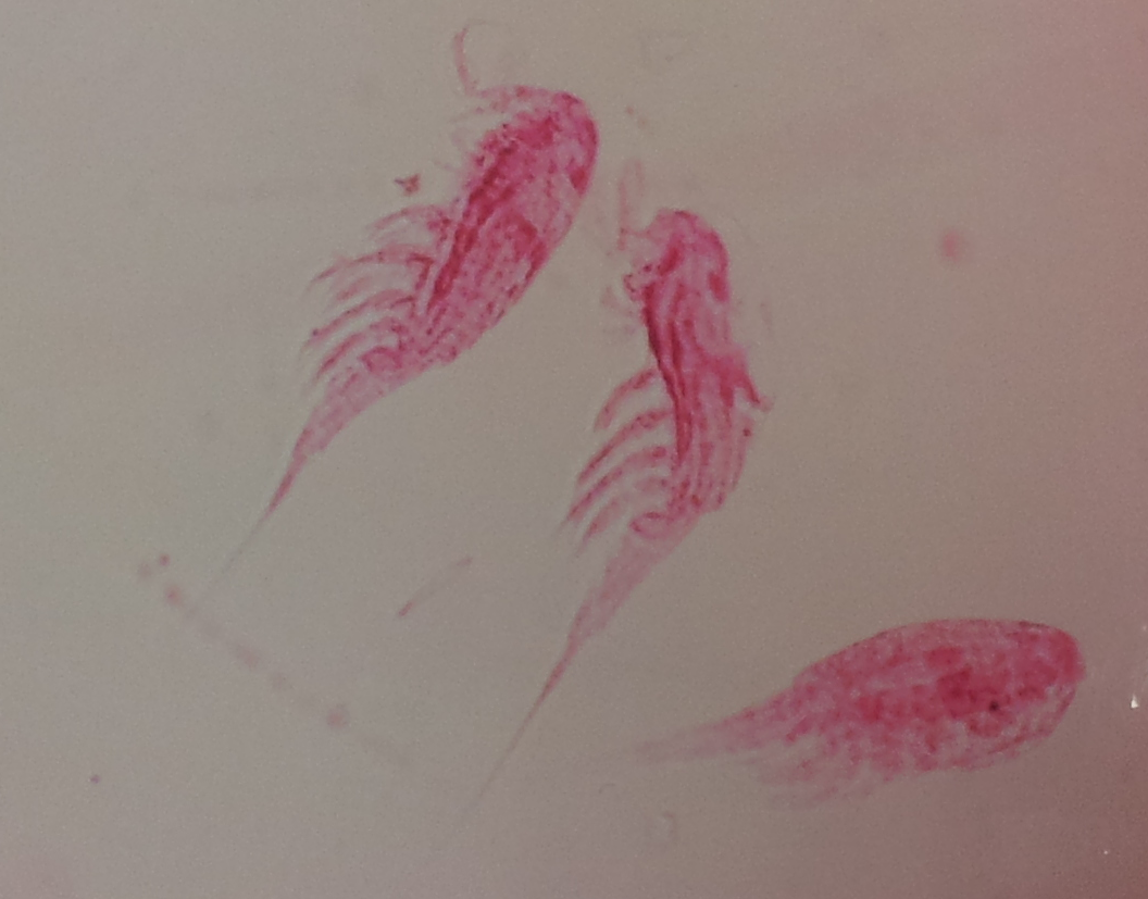 cyclops (x40)